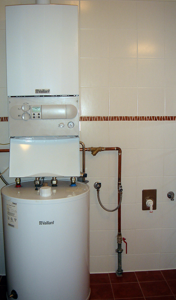 fuel gas driven furnace (top) with domestic warm water tank (below) Boiler and cylinder (Make: Vaillant) For a detail see Image:Boiler Vaillant.jpgBoiler & Cylinder